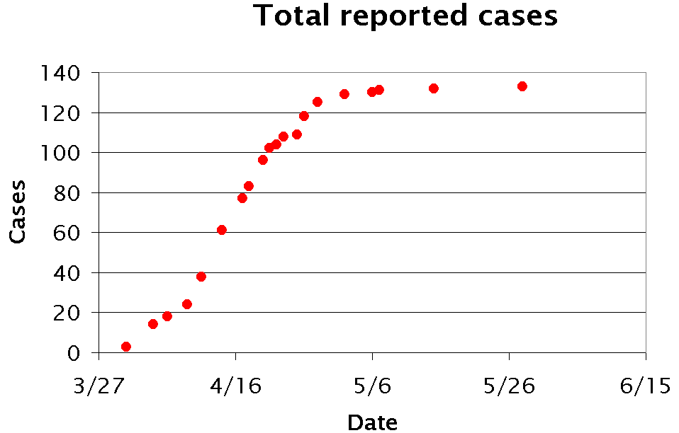 Influenza A virus subtype H7N9 - Total reported cases